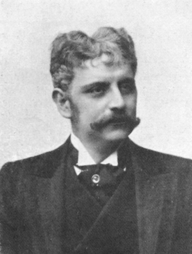 Ludwig Eisenberg (1858–1910), Austrian writer and encyclopedist. Information about date and photographer: KHM image archive/Theatermuseum Vienna Kunsthistorisches Museum Wien, Bilddatenbank.